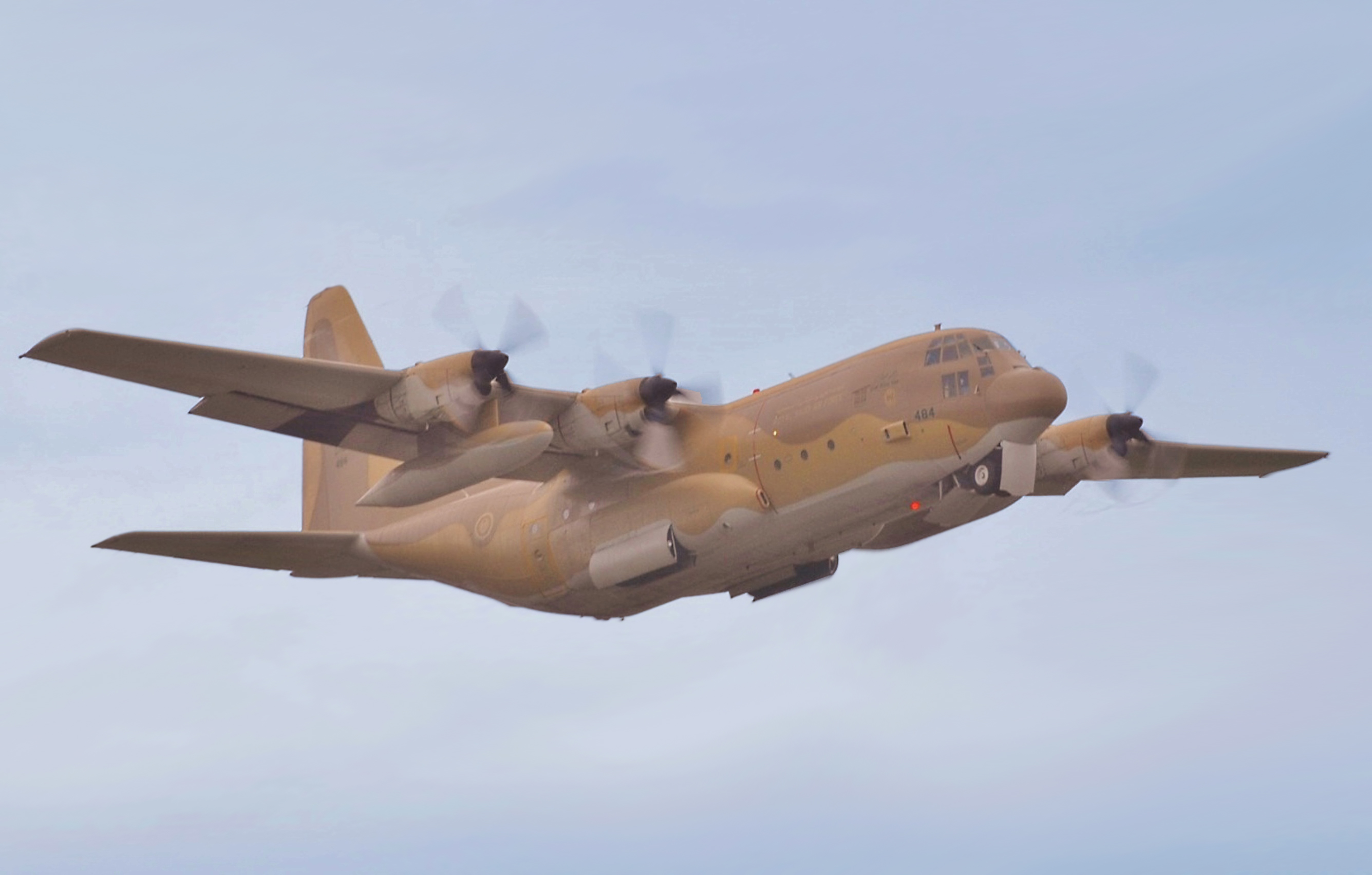 Saudia Air Force C-130H departing a murky East Midlands